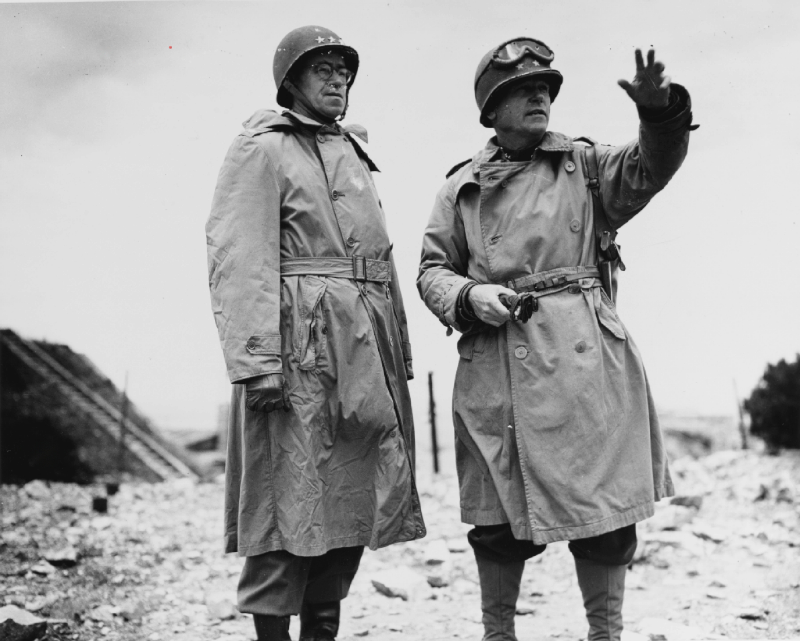 Major General J. Lawton Collins (right) explains to Lieutenant General Omar Bradley (left) how Cherbourg was taken